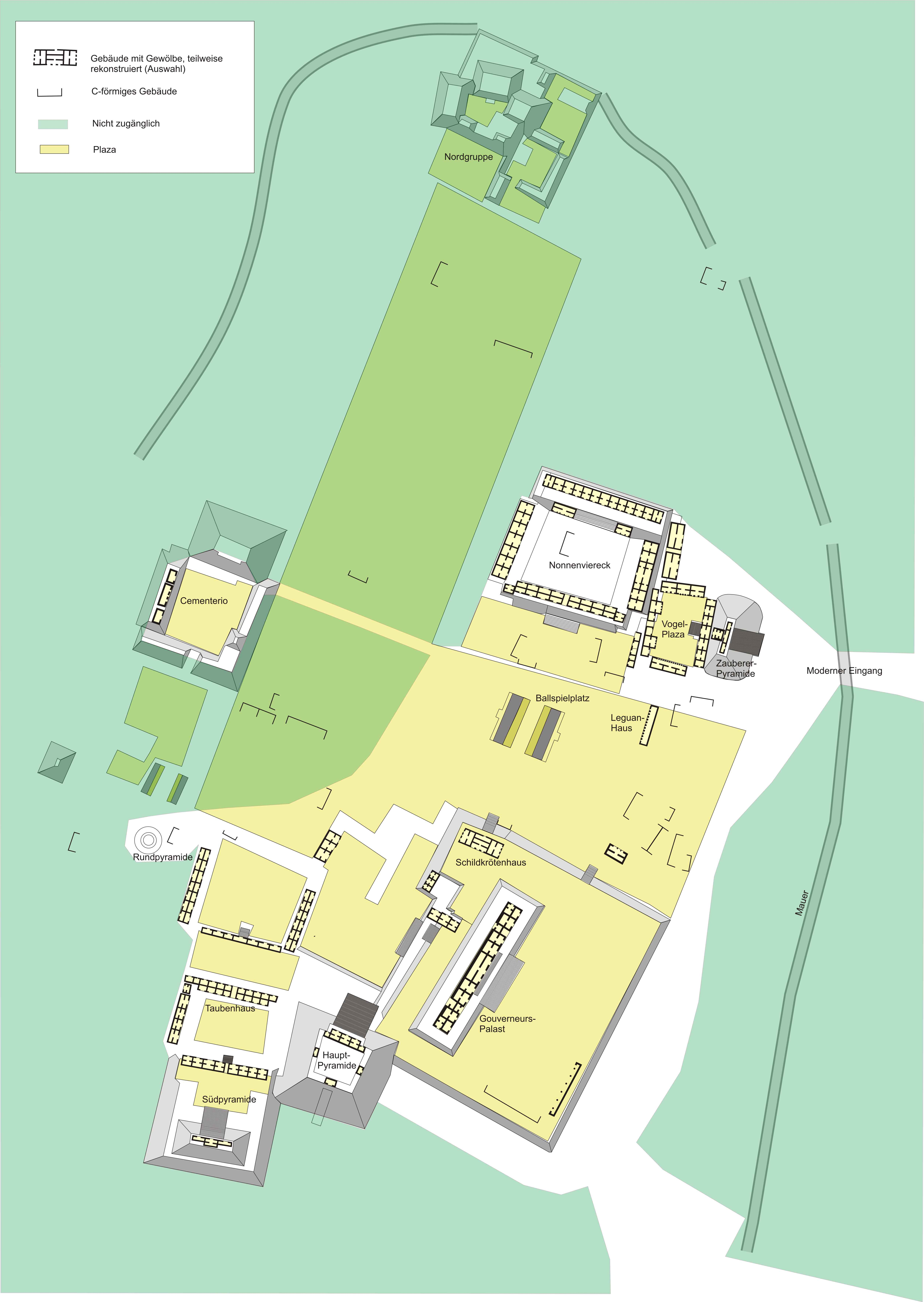 Uxmal, Yucatan, Mexico: Plan.